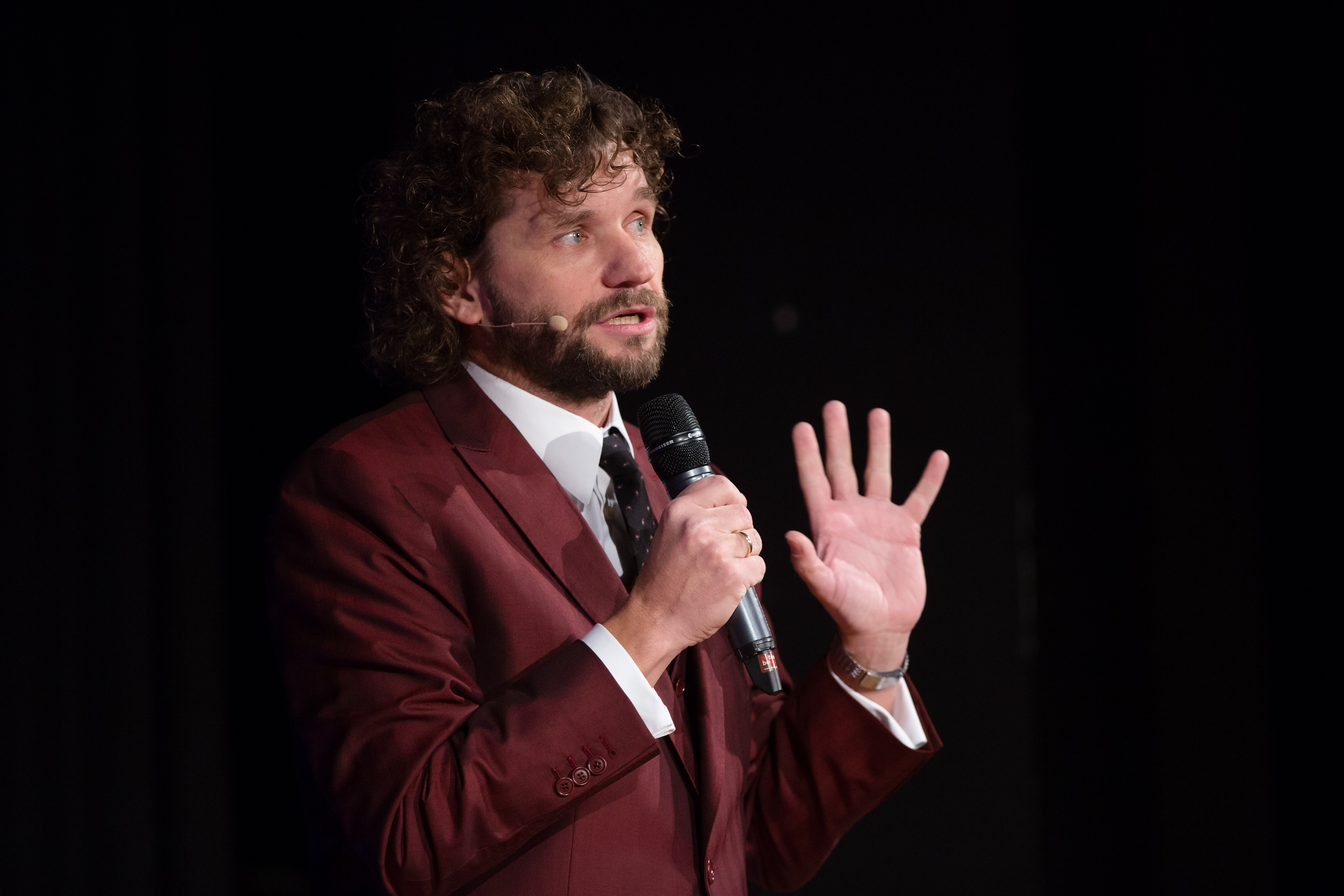 Martin Puntigam at the Austrian Cabaret Award 2015 at Urania in Vienna, Austria.